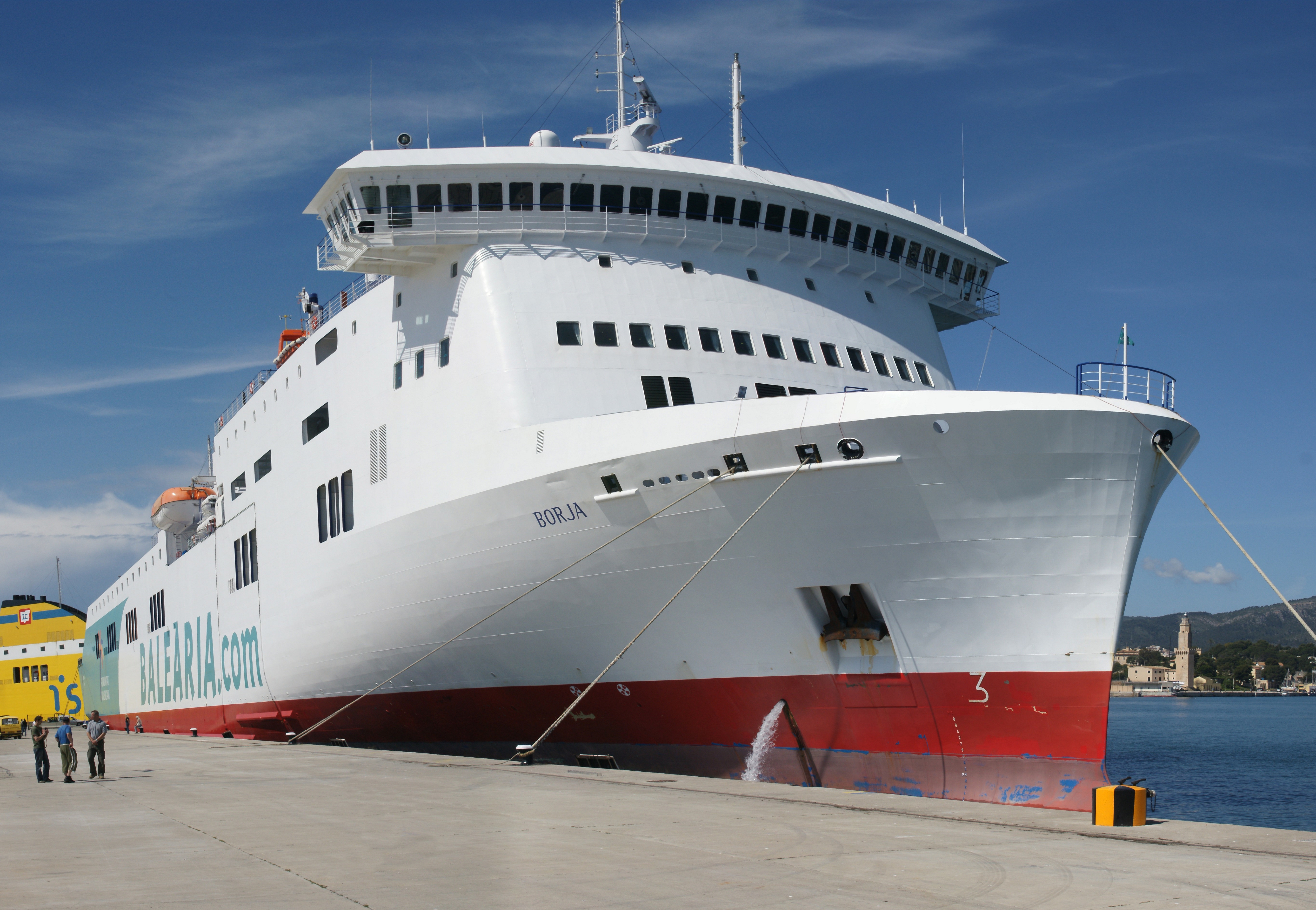 The Borja at that time sailing for Balearia. IMO Number: 9349760 MMSI Number: 247196400 Callsign: ICEC Gross tonnage: 26500 DWT: 7000 Type of ship: Passenger/Ro-Ro Cargo Ship Year of build: 2007 Length: 186.46 m Speed: 24 kn